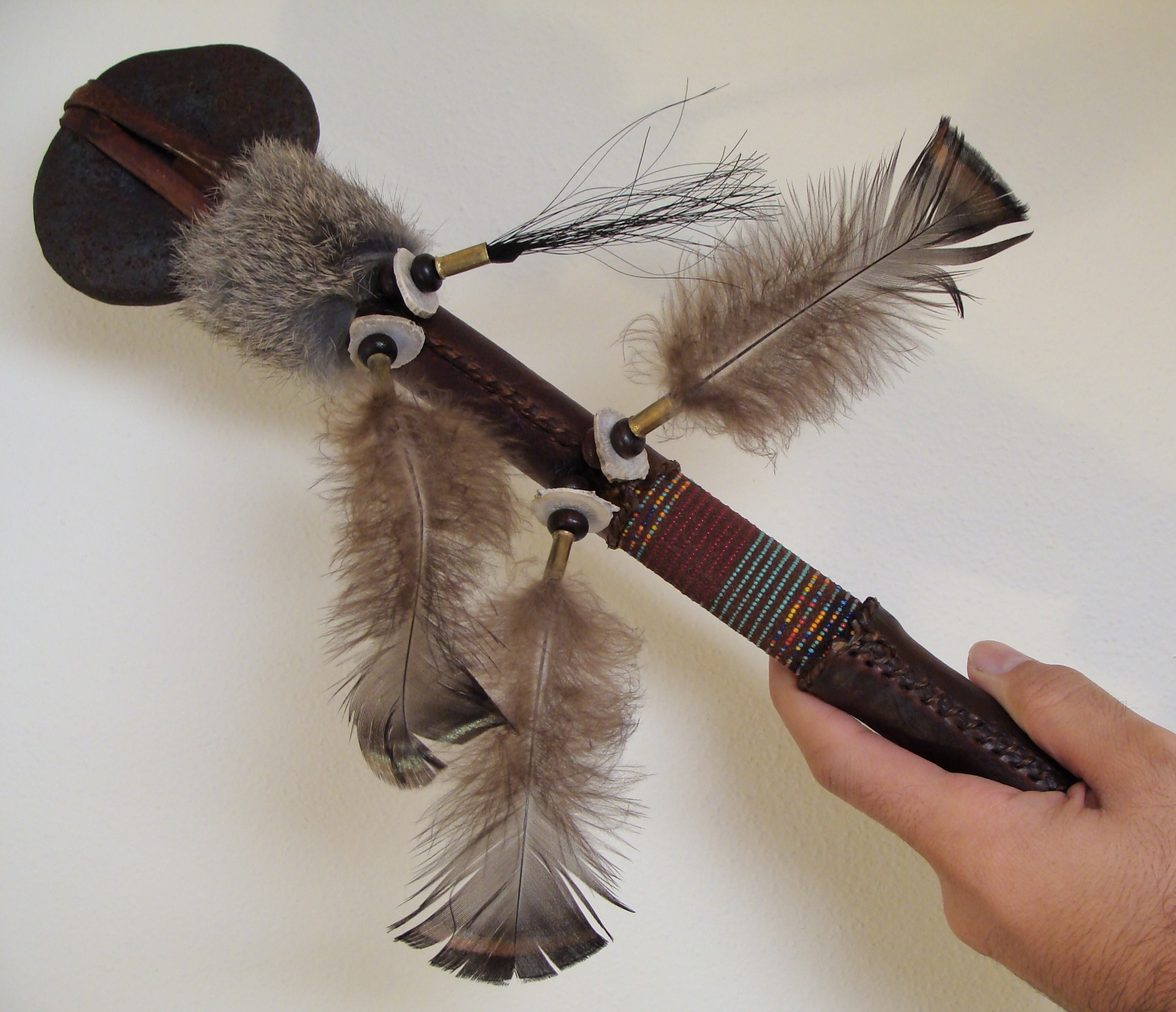 A modern day replica of a traditional Native American Tomahawk. Purchased in Arizona.